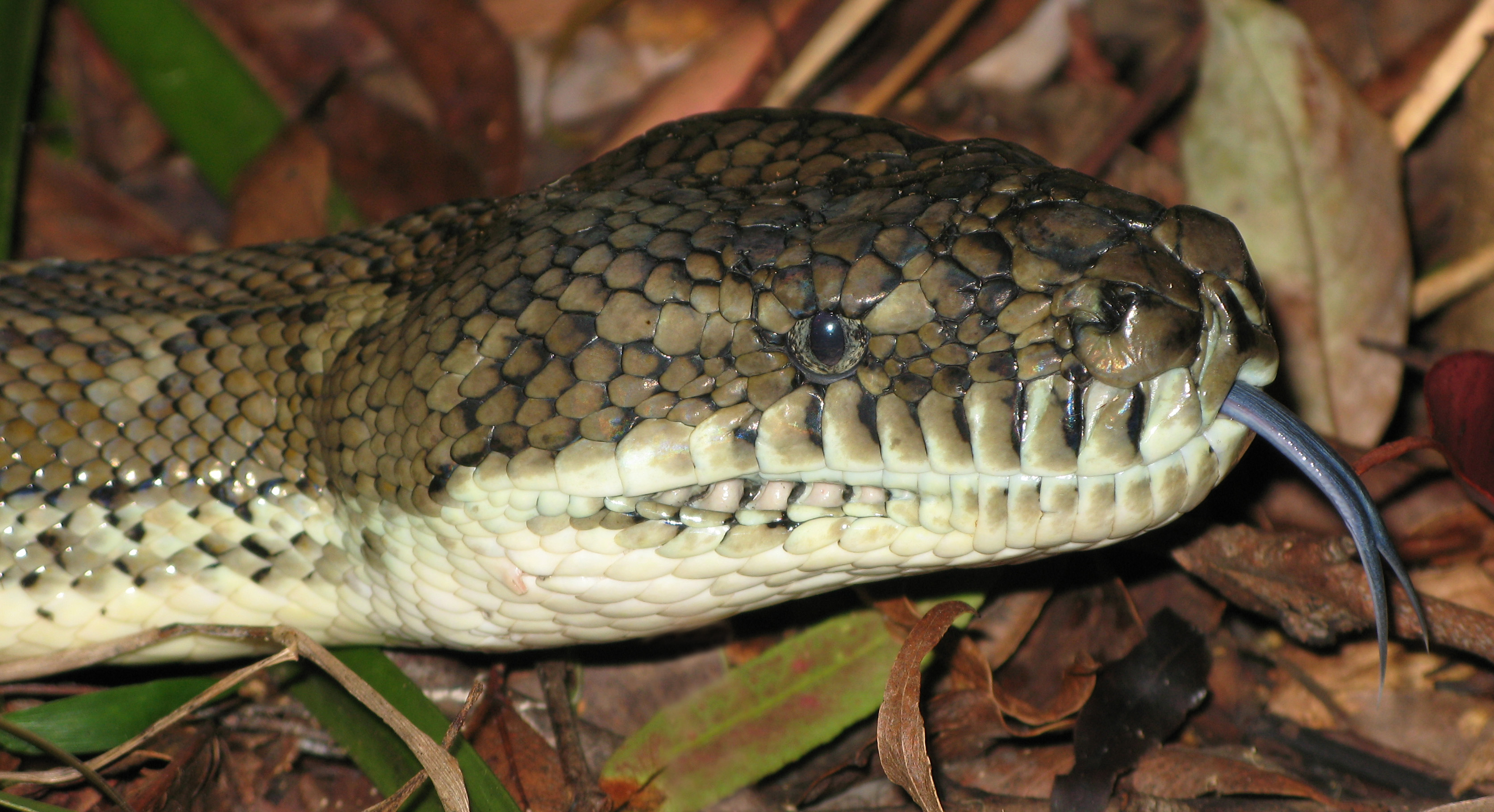 Profile of a Coastal Carpet Python (Morelia spilota mcdowelli)